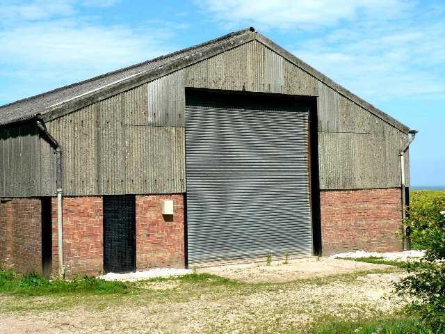 Moiré Pattern at Gardham Gap, High Gardham, East Riding of Yorkshire, England.The Moiré pattern arises because the image contains repetitive detail which exceeds the resolution of the camera.